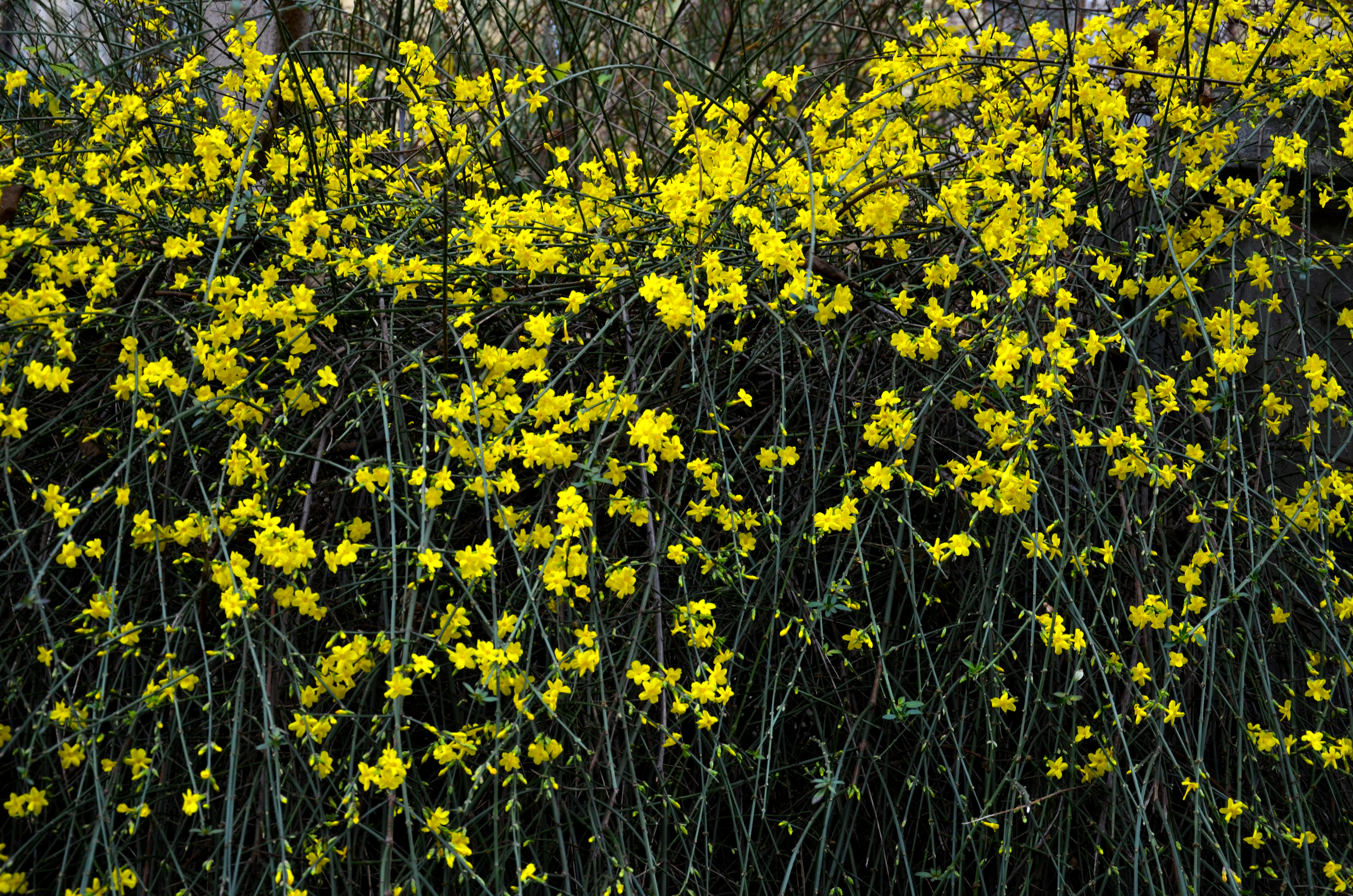 Jasminum nudiflorum shrub in December, Prague